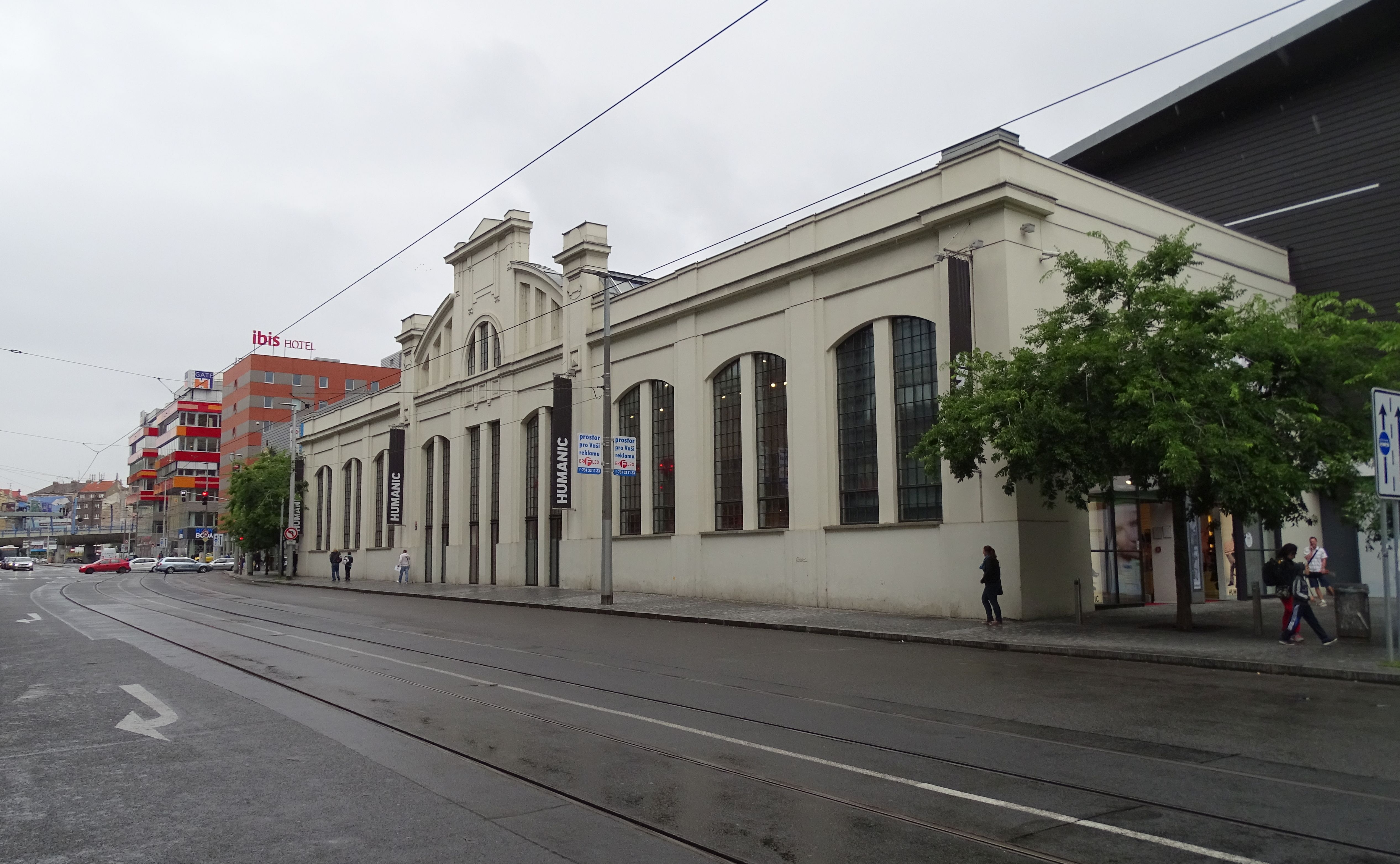 Prague-Smíchov, Czech Republic. Plzeňská street, former facade of the Ringhoffer Works.